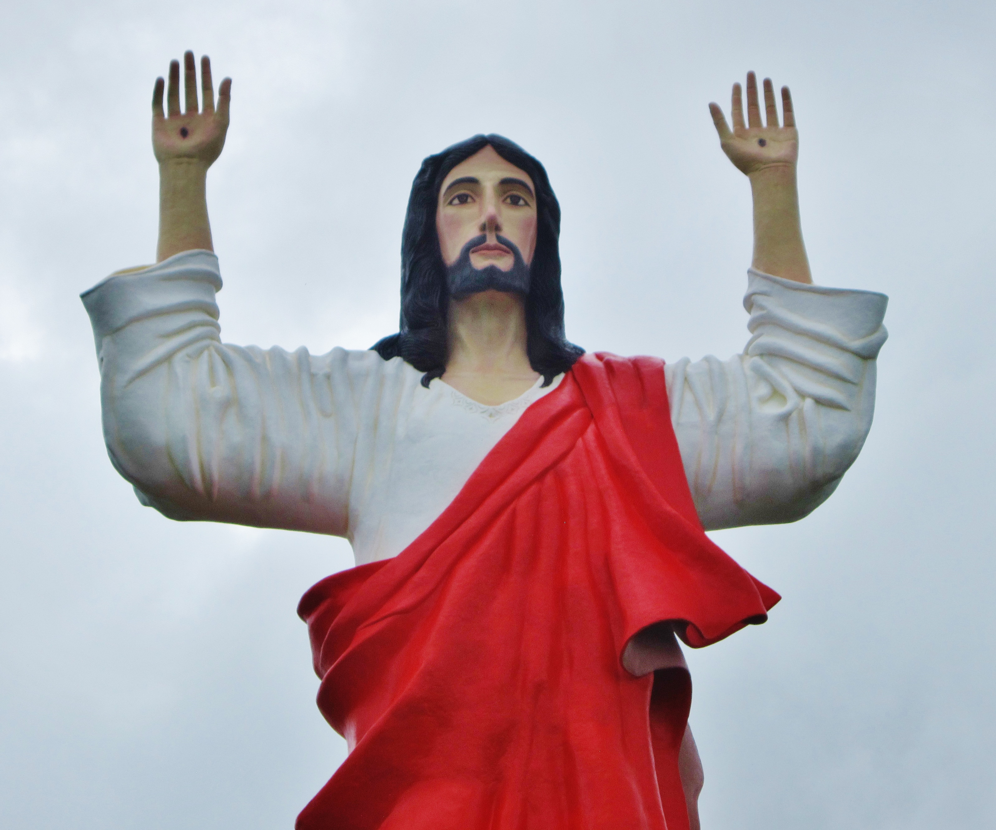 The 31.01 meters (102.02 ft) Sacred Heart of Jesus Shrine was finally completed after about 2 years and 8 months of intermittent work . The giant statue is mounted on a 30 ft. high pedestal.